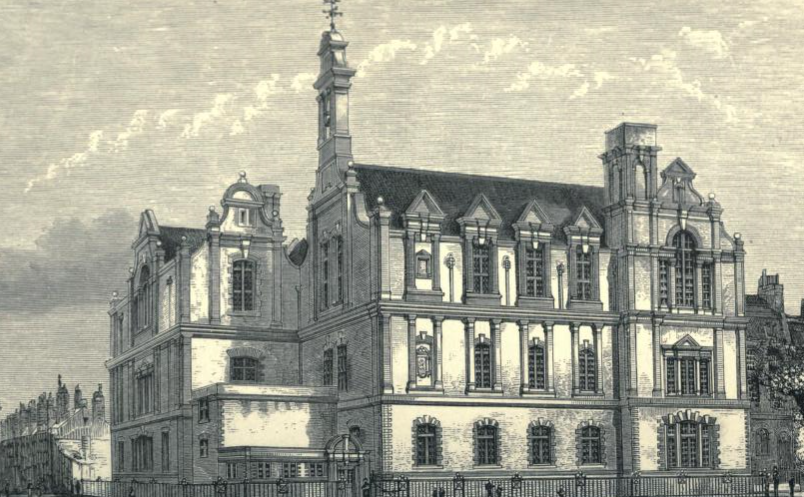 West Street School, London Fields. Artist's impression of a school designed by architect Edward Robert Robson (1866-1917), and published by him in 1874.